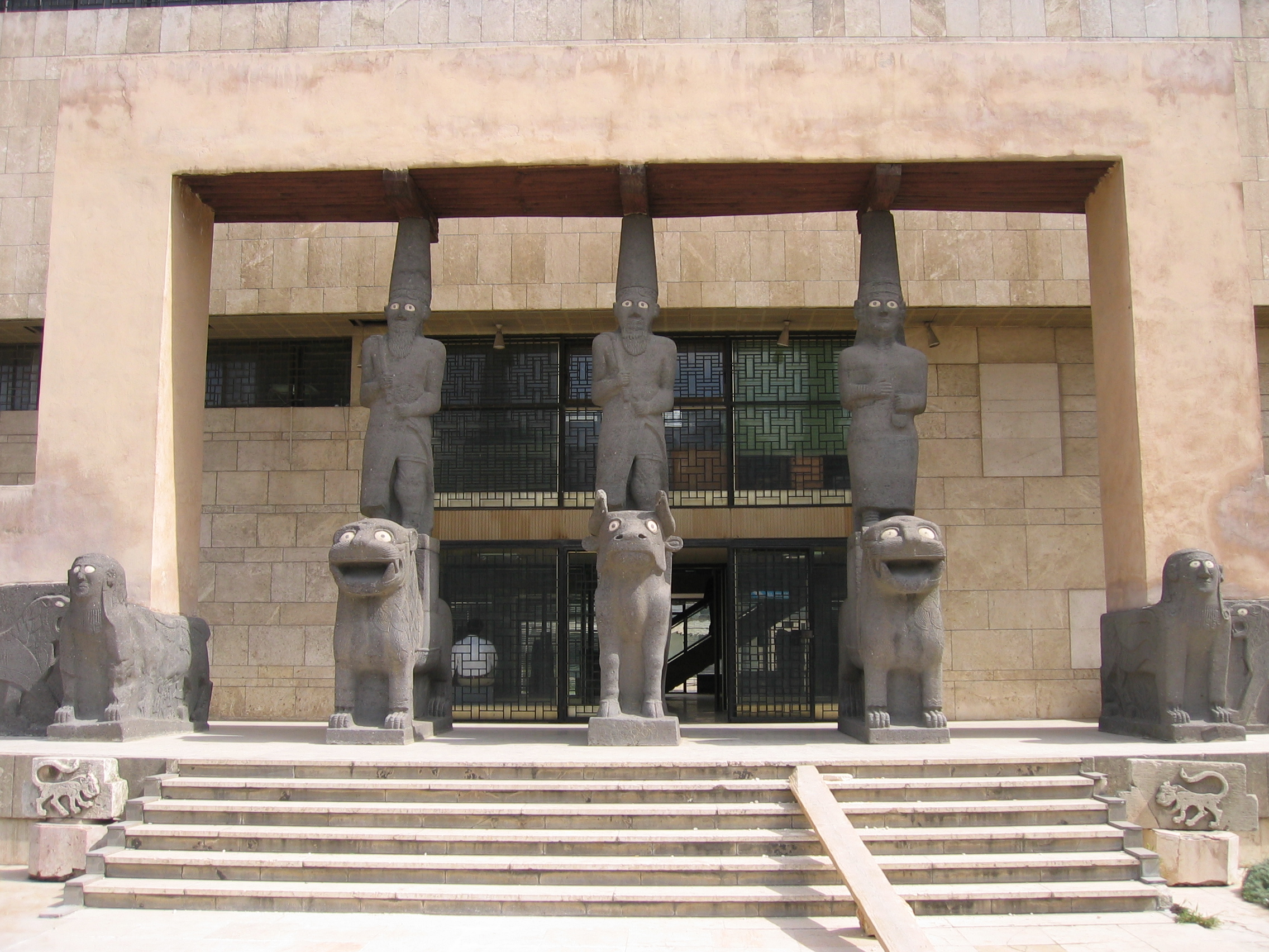 Description: Entrance of the National Museum Aleppo Syria